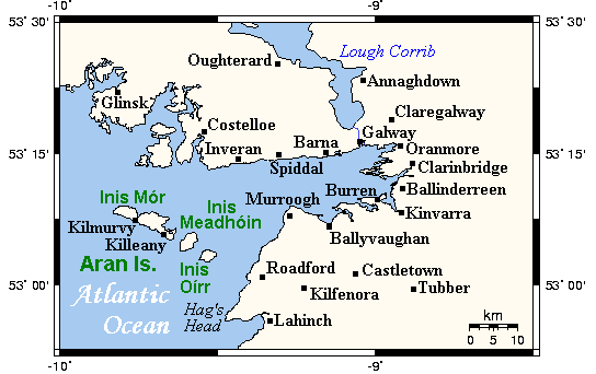 A map showing Galway Bay and nearby areas. This map's source is here, with the Kelisi's modifications, and the GMT homepage says that the tools are released under the GNU General Public License.